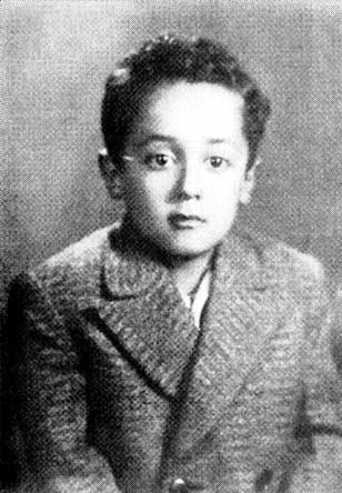 Mohammad Javad Tondguyan (1938–?), Iran Minister of Oil